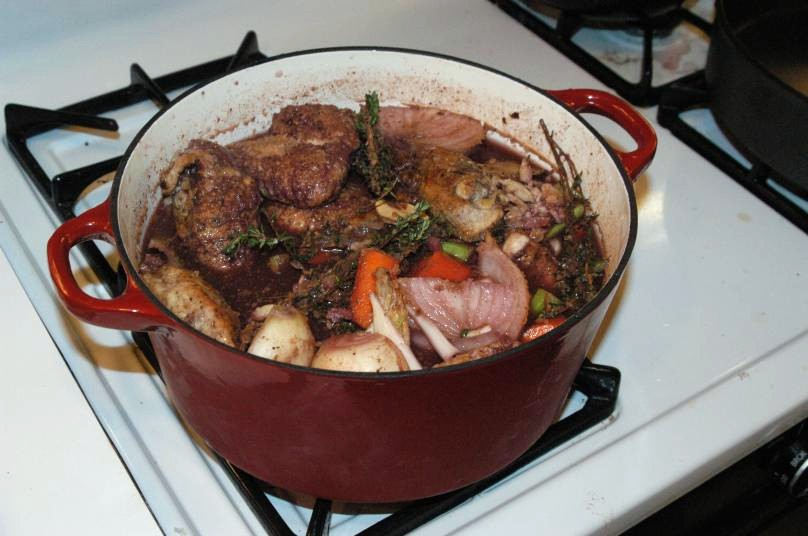 Coq au vin, awaiting cooking.